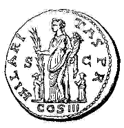 738 woodcuts illustrating the work A Dictionary of Roman Coins, Republican and Imperial (1889). To identify a coin please look at the filename to identify a page number, and check the Dictionary on numiswiki